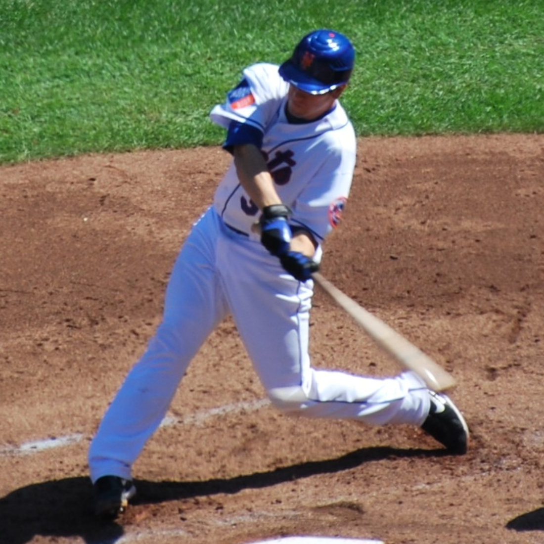 Josh Thole